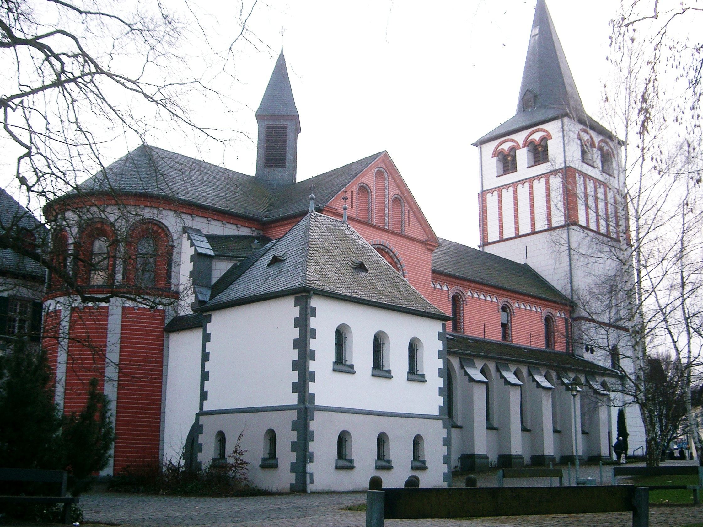 Church St. Pankratius in Königswinter-Oberpleis, Germany. Exterior view from north-east.